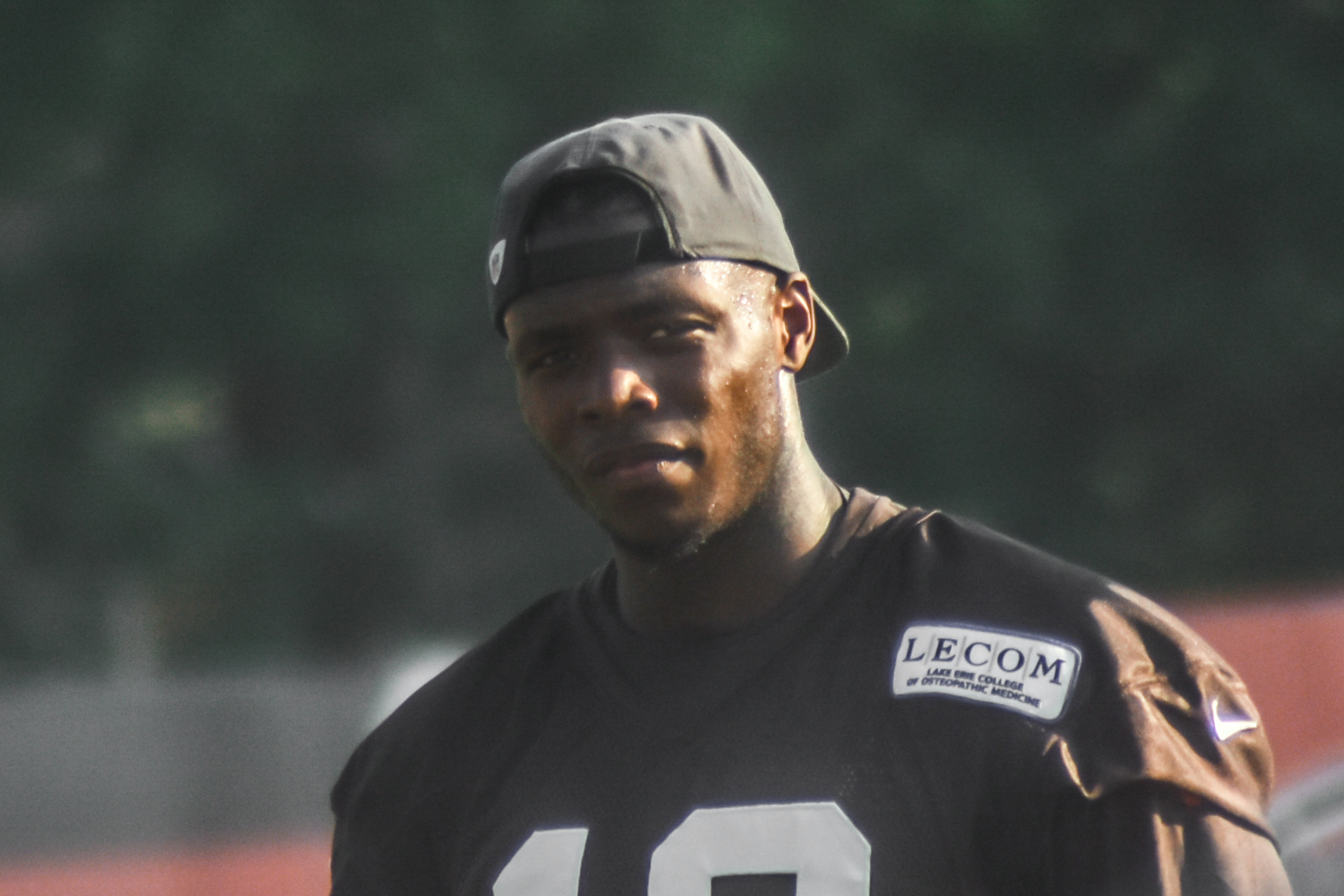 Josh Gordon